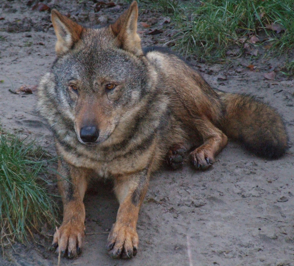 An Iberian wolf (Canis lupus signatus) in Kerkrade's Zoo (Netherlands).